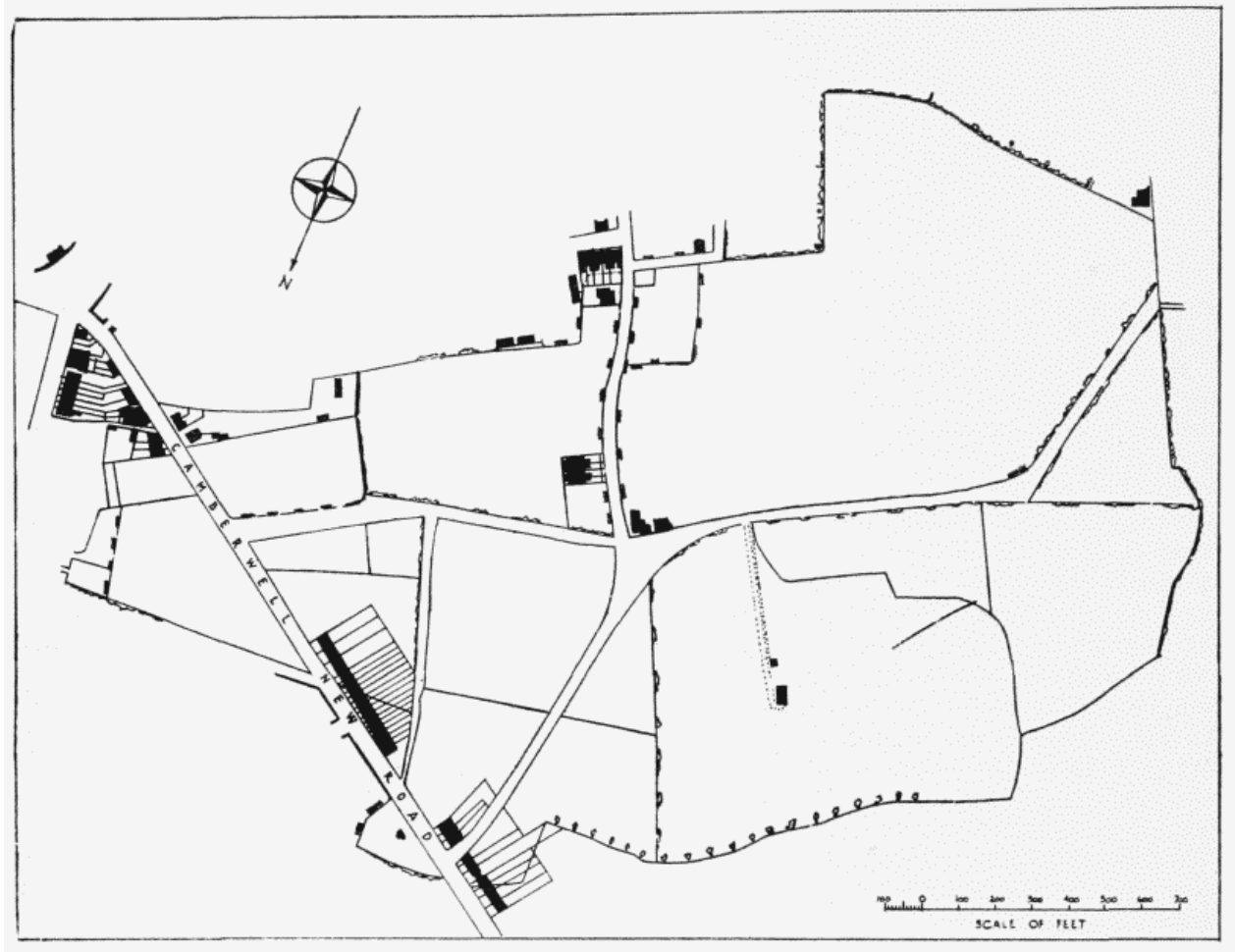 The Minet Estate, South London, in 1841